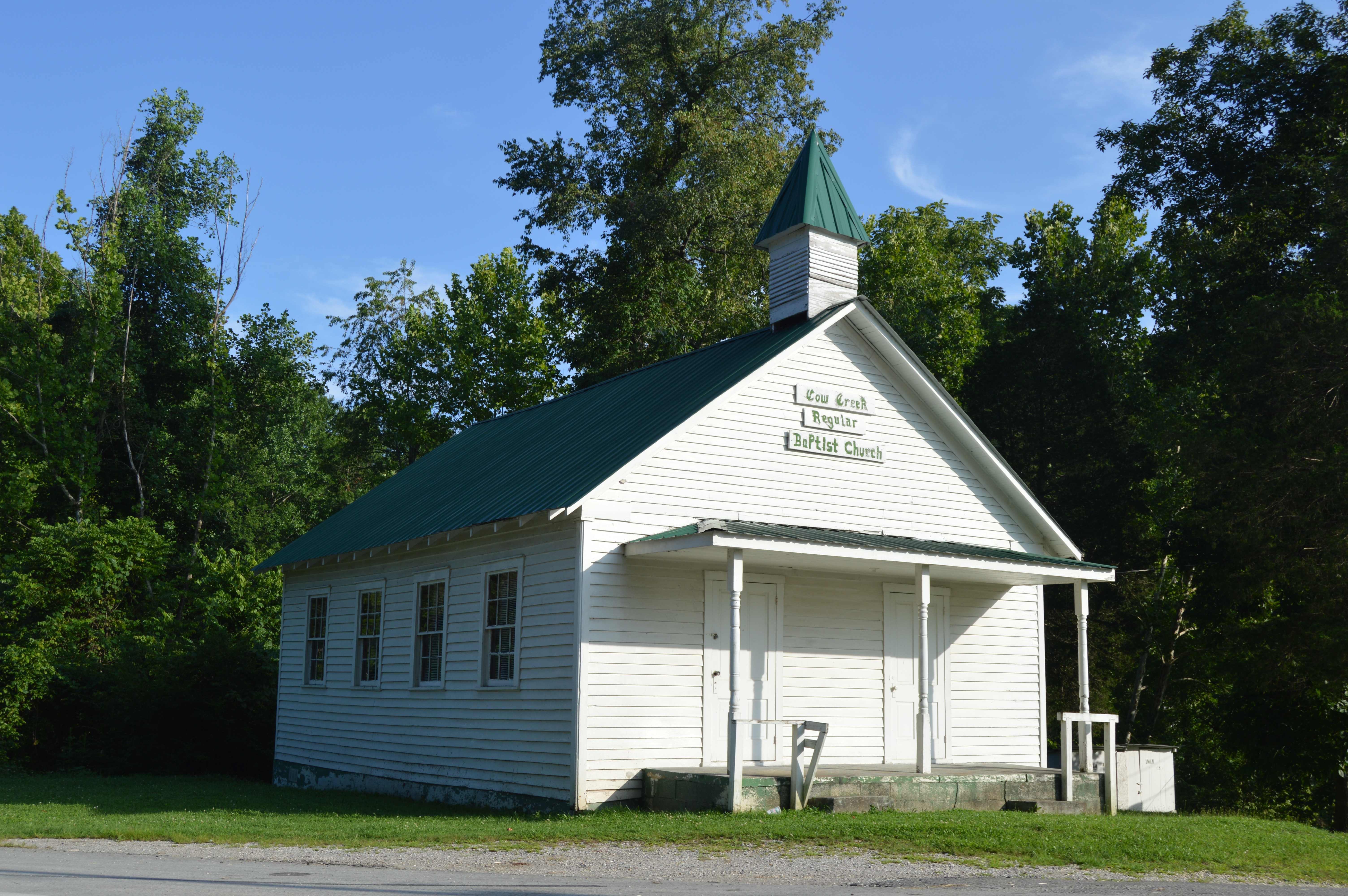 Front and eastern side of Cow Creek Regular Baptist Church, located on the southern side of Kentucky Route 28 at the crossroads of Arnett, Kentucky, United States.